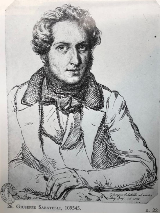 Luigi Biagi portrait by his friend Giuseppe Sabatelli currently in gabinetto disegni e stampe degli Uffizi